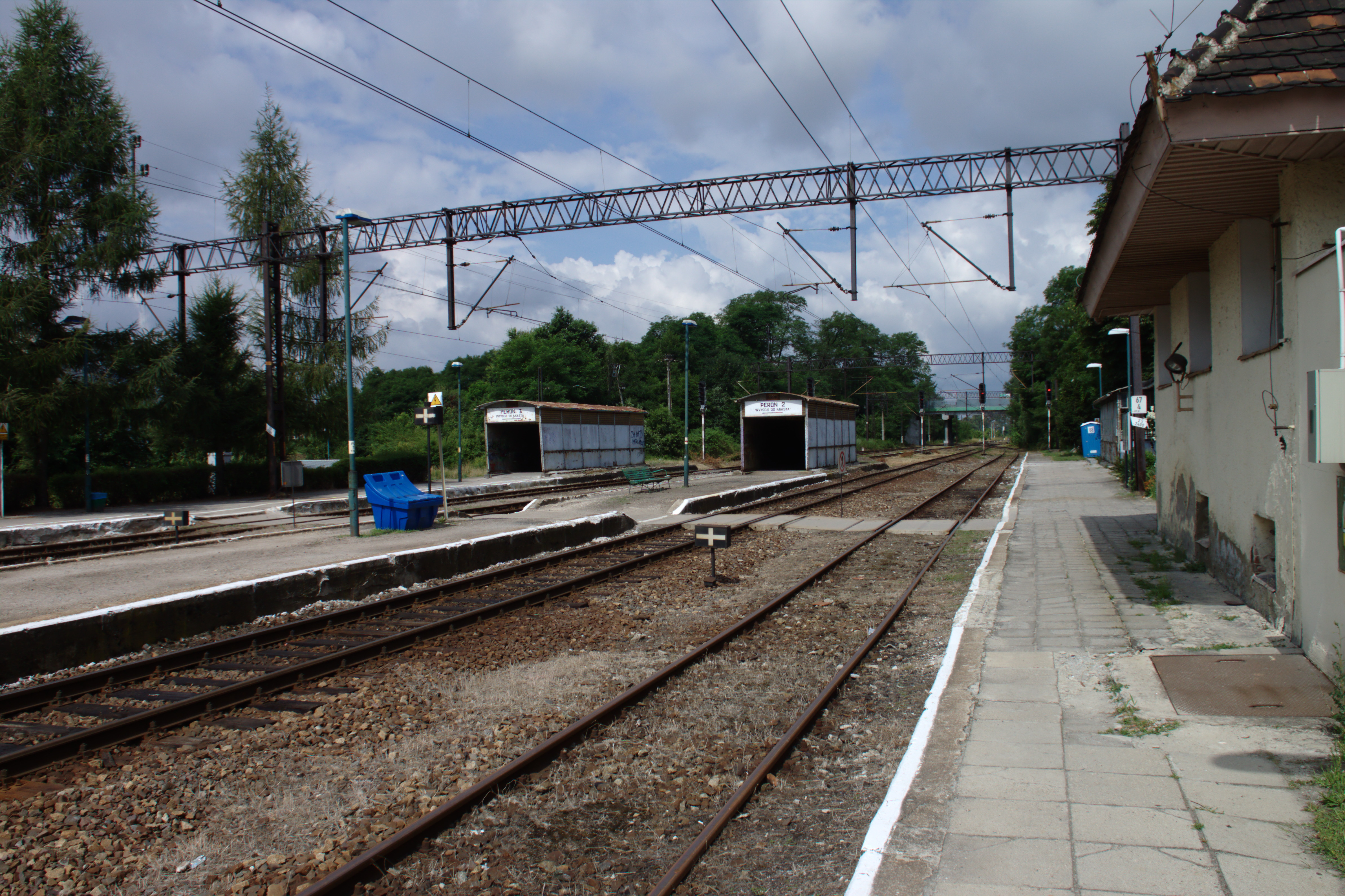 Platform of the Jelcz-Laskowice train station, Poland